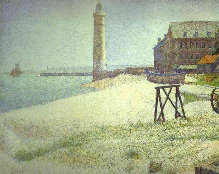 Lighthouse at Honfleur